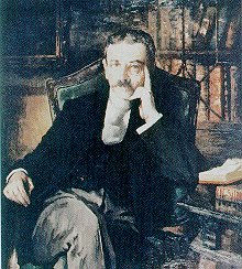 Pedro Augusto de Carvalho (1841-1894), Portuguese lawyer, politician and banker.